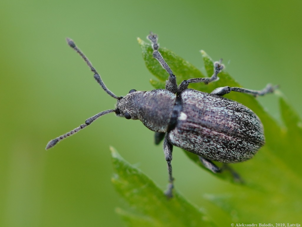 Phyllobius vespertinus